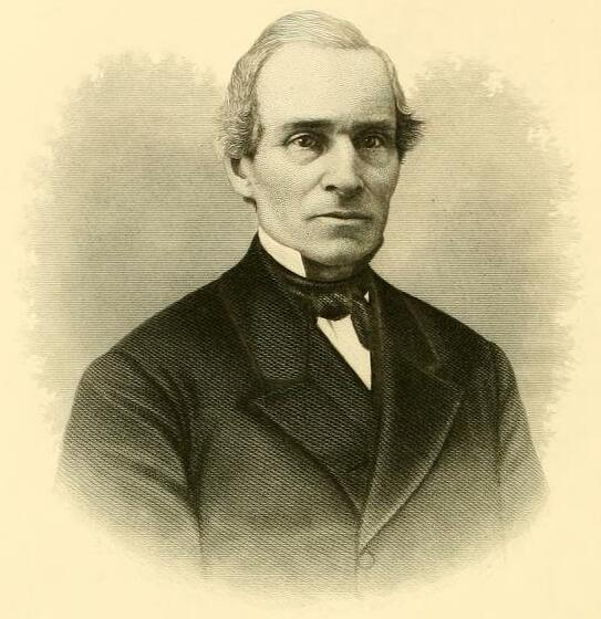 Willard Ives, New York Congressman